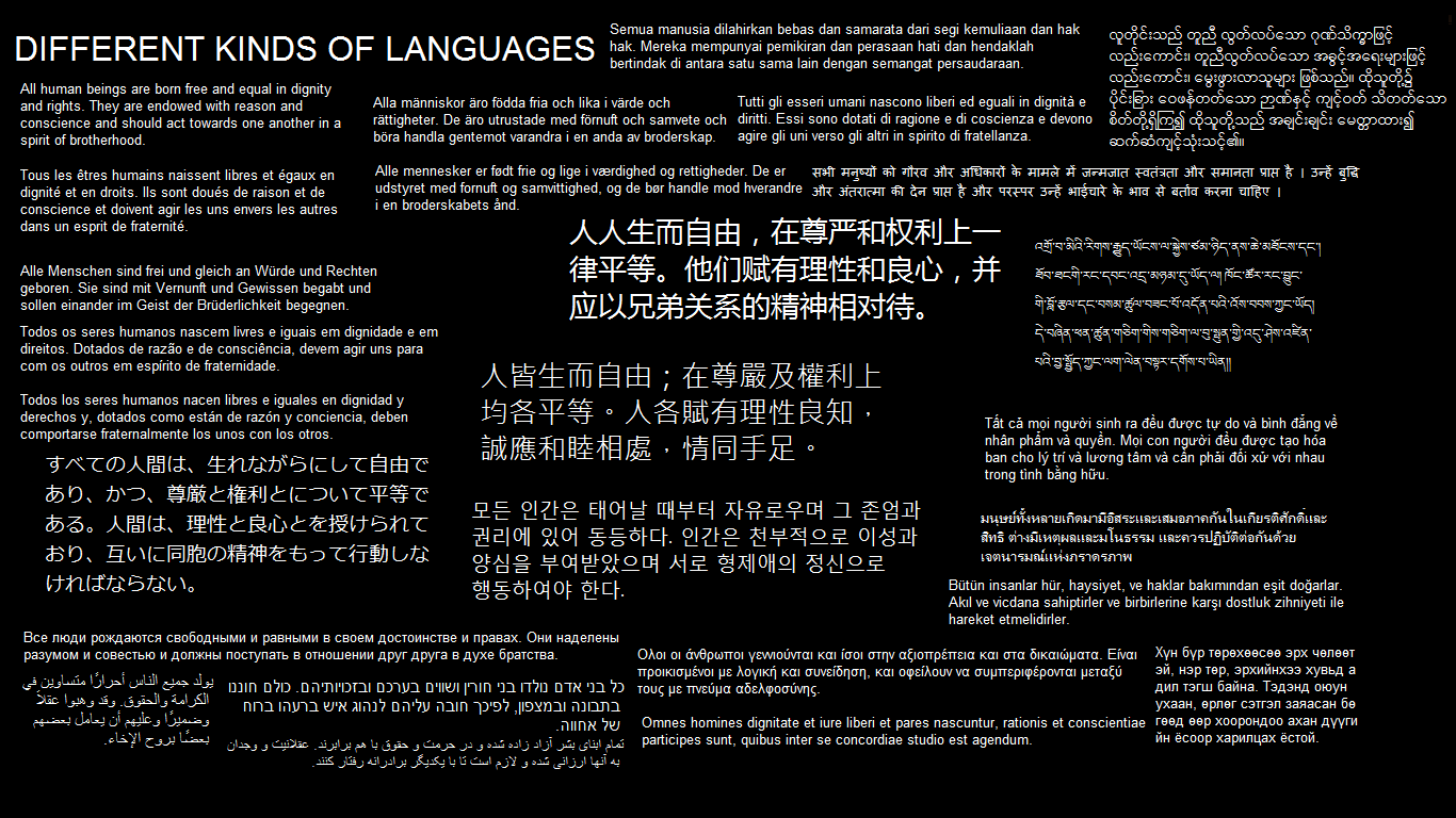 There are many languages.